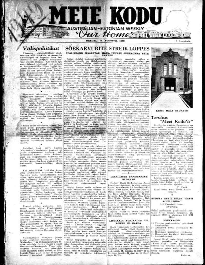 Coverpage of a historic newspaper from New South Wales, Australia.